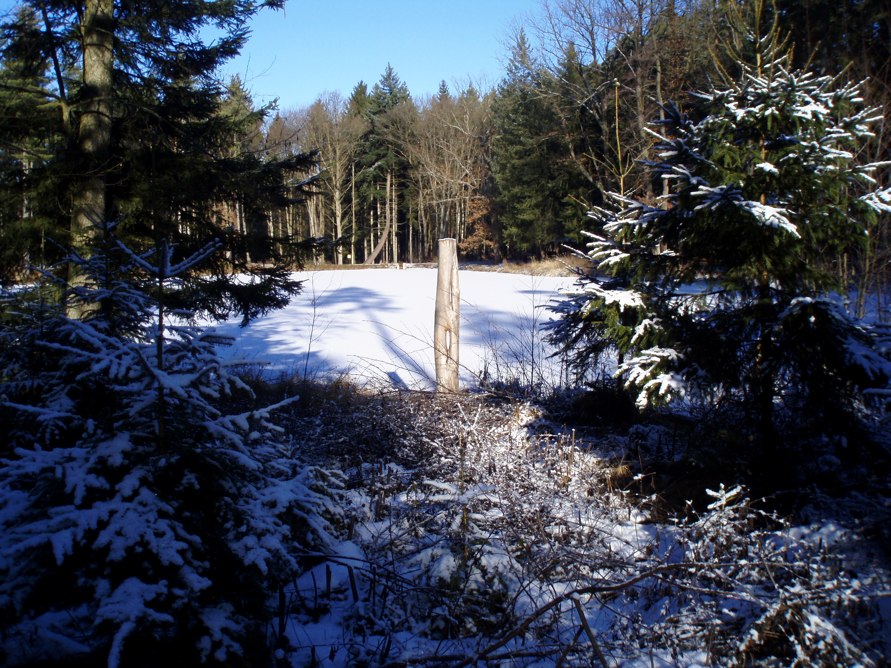 Water retention basin "Kříž" in Hradec Králové (Czechia)